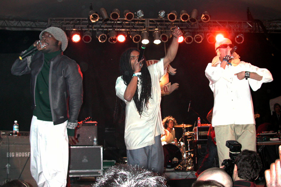 The Black Eyed Peas in 2001.